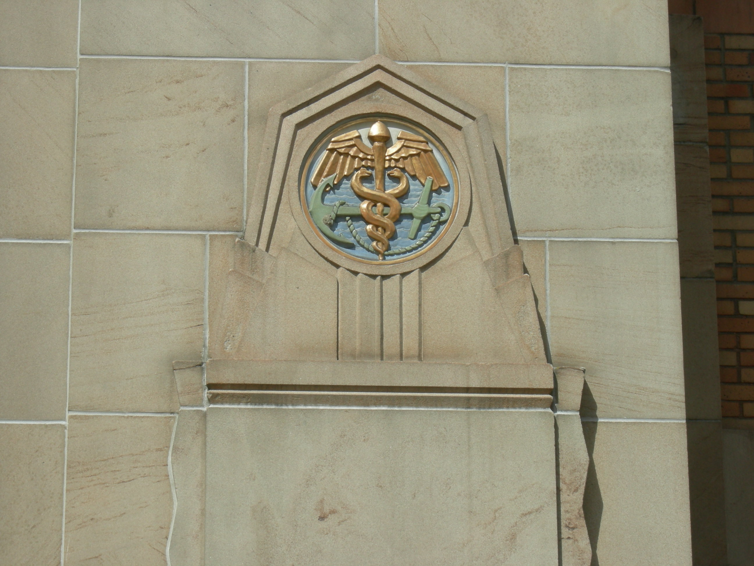 Caduceus and anchor, seal of U.S. Marine Hospital Service, on the former U.S. Marine Hospital, Seattle, Washington, now the (with a new north wing added) the Pacific Medical Center building, housing the headquarters of Pacific Medical Center and . The building is on the National Register of Historic Places.